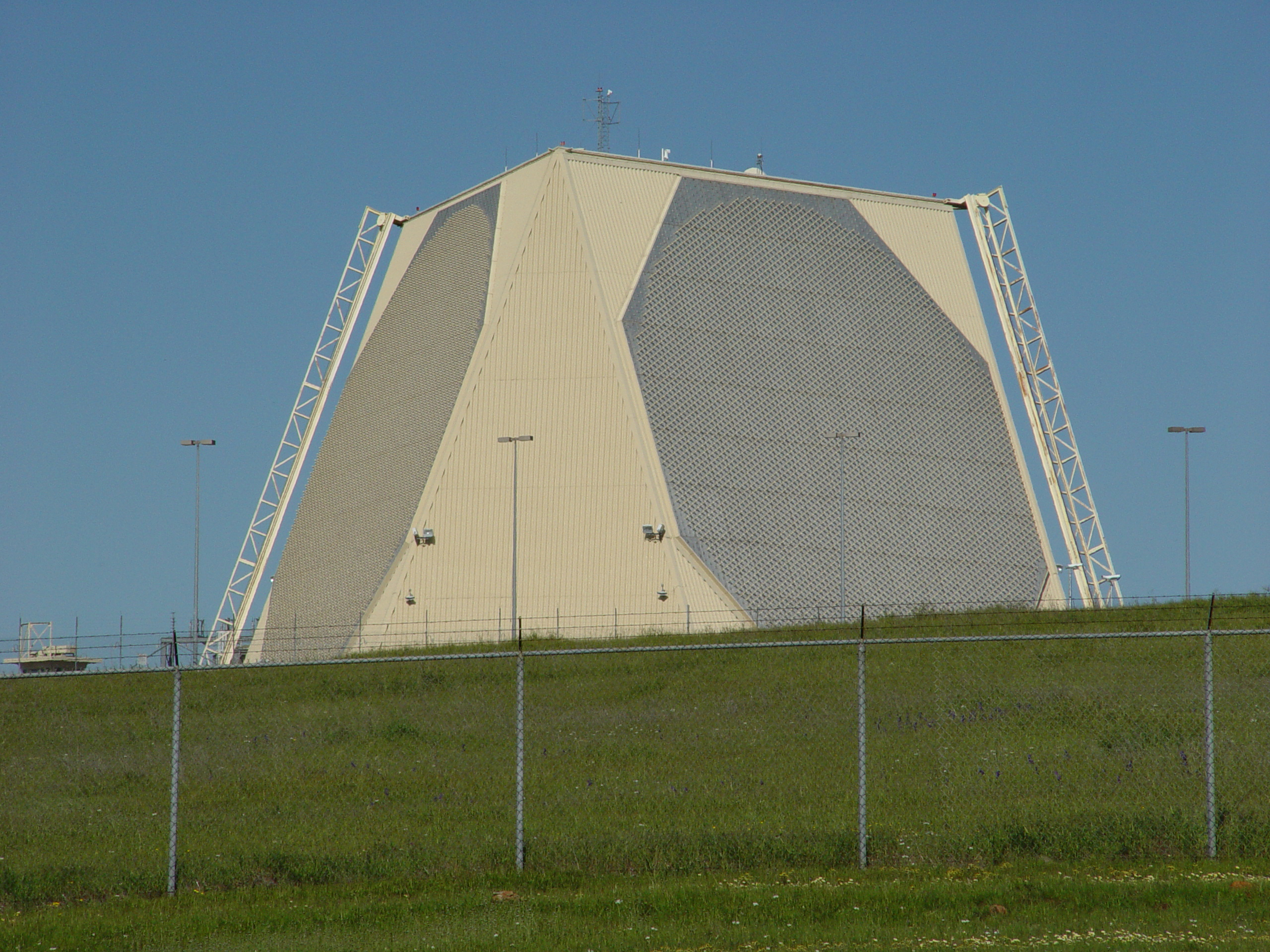 PAVE PAWS Radar, Beagle Air Force Base, California, USA.